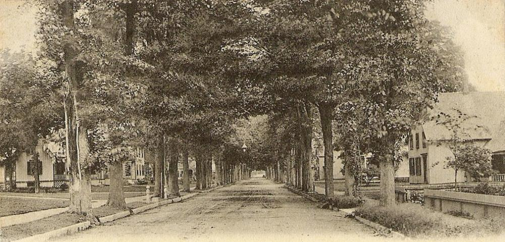 Meadow Street, Winsted, Connecticut; from a c. 1906 postcard.